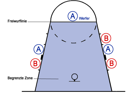 Basketball, free throws, positions of players